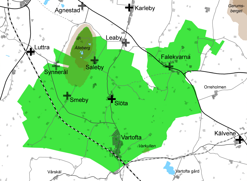 Map of Slöta parish in Vartofta hundred, Falköping municipality, Västergötland, Sweden. Scale 1:40,000. The area of Slöta parish is marked green. The table mountains Ålleberg and Gerumsberget, and the hill Varkullen, are marked brown. Lakes are marked blue. The churches of Slöta, Luttra, Karleby, and Kälvene are marked with black crosses. The church sites of Synnerål and Falekvarna, and the church ruins of Agnestad, Leaby, Saleby, and Smeby are marked with grey crosses.